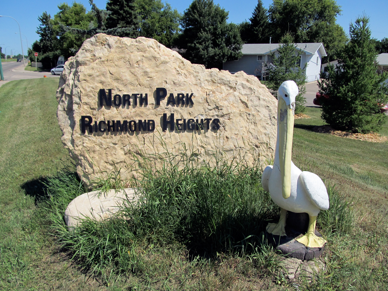 Neighbourhood sign on Warman Road for the North Park and Richmond Heights neighbourhoods in Saskatoon, Saskatchewan, Canada.